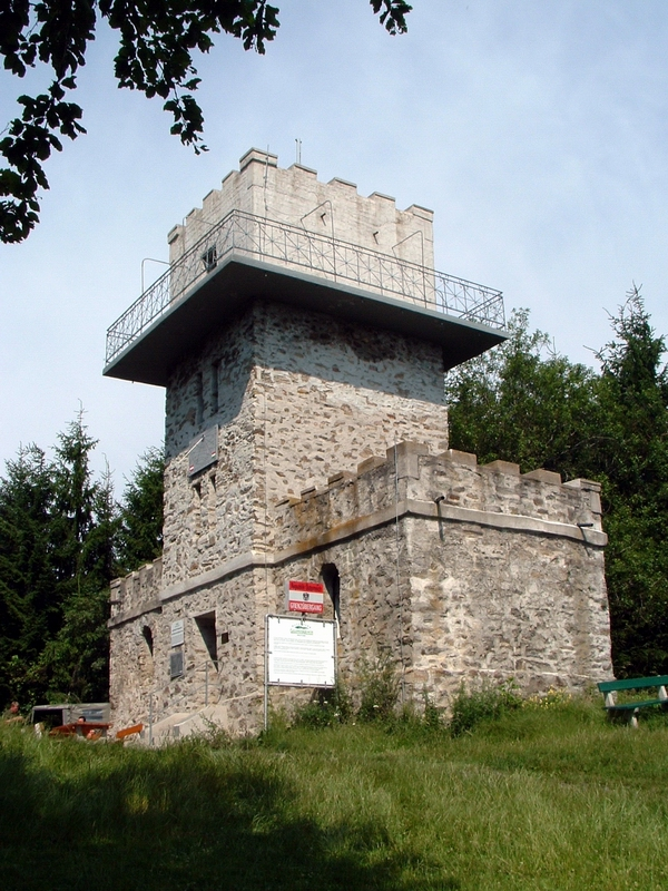 Watchtower on the top of the Irottkő Mountain (884 m) on the Austrian-Hungarian boundary.